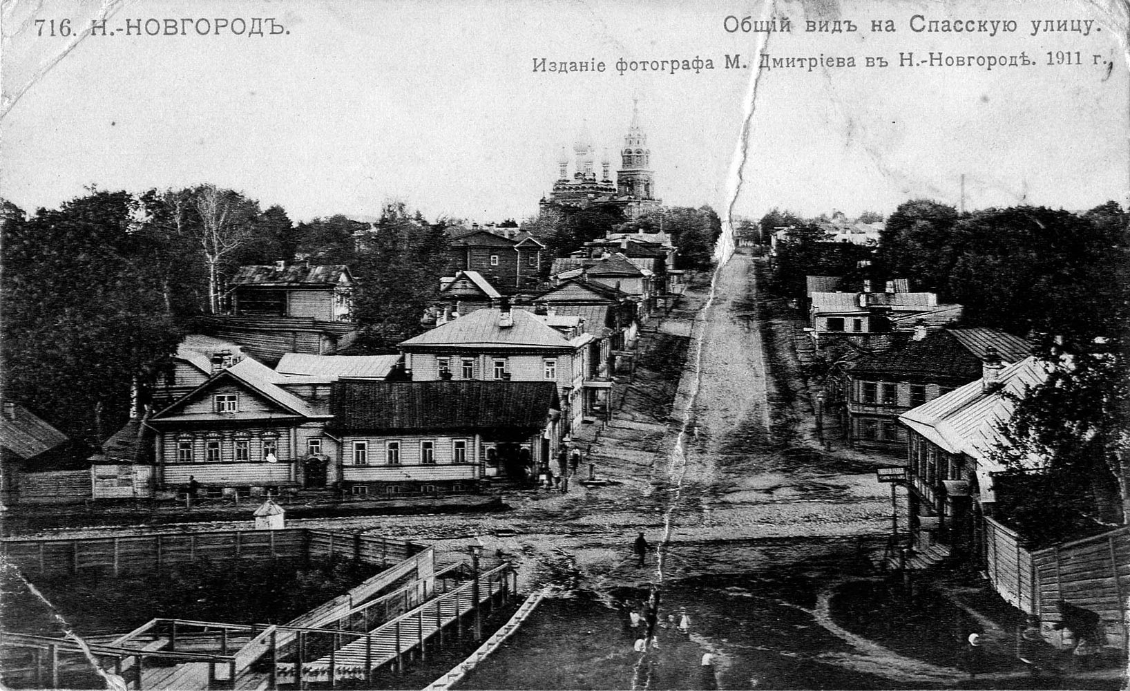 Church of Our Merciful Saviour in Spasskaia st., Nizhny Novgorod (modern address 177a Gorky St)